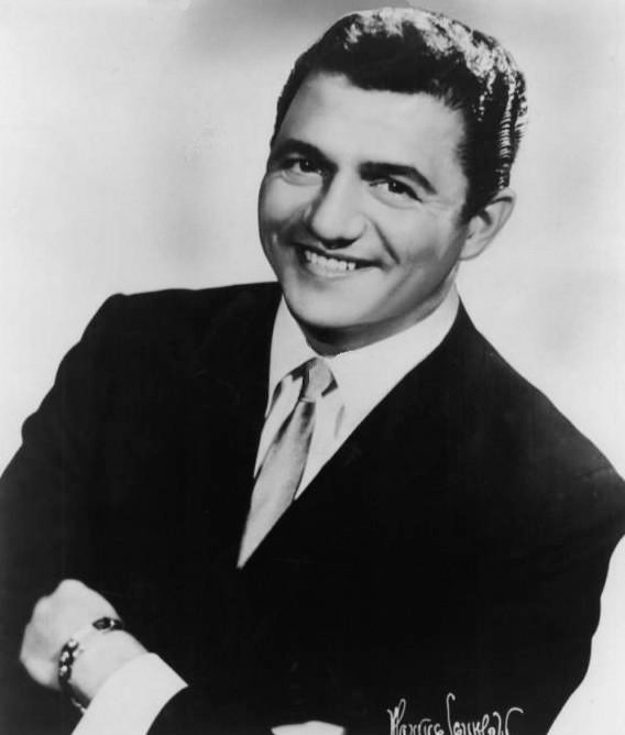 Publicity photo of singer Buddy Greco.